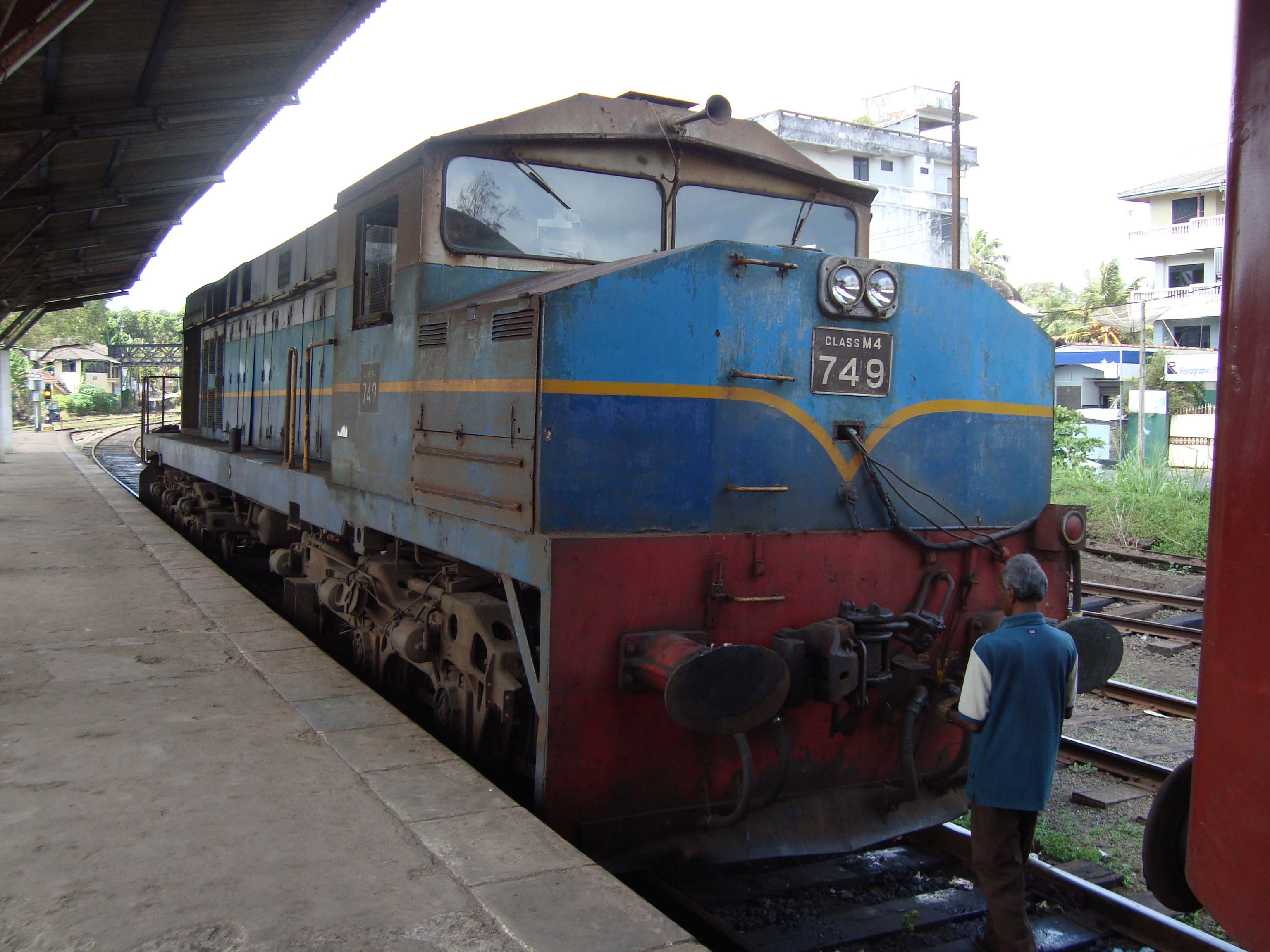 Class M4 MLW Alco Bombardier